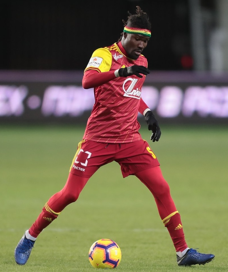 Abdul Kadiri Mohammed with FC Arsenal Tula in a Russian Cup game against FC Orenburg.